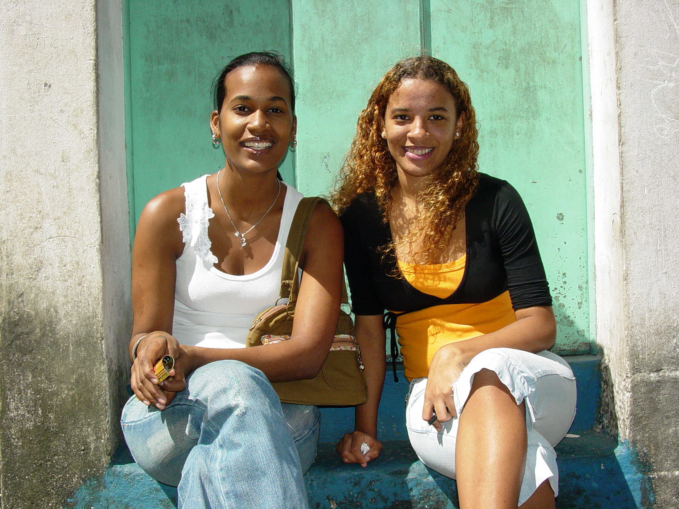 Young women on steps in Salvador, Bahia state, Brazil. July 2006.